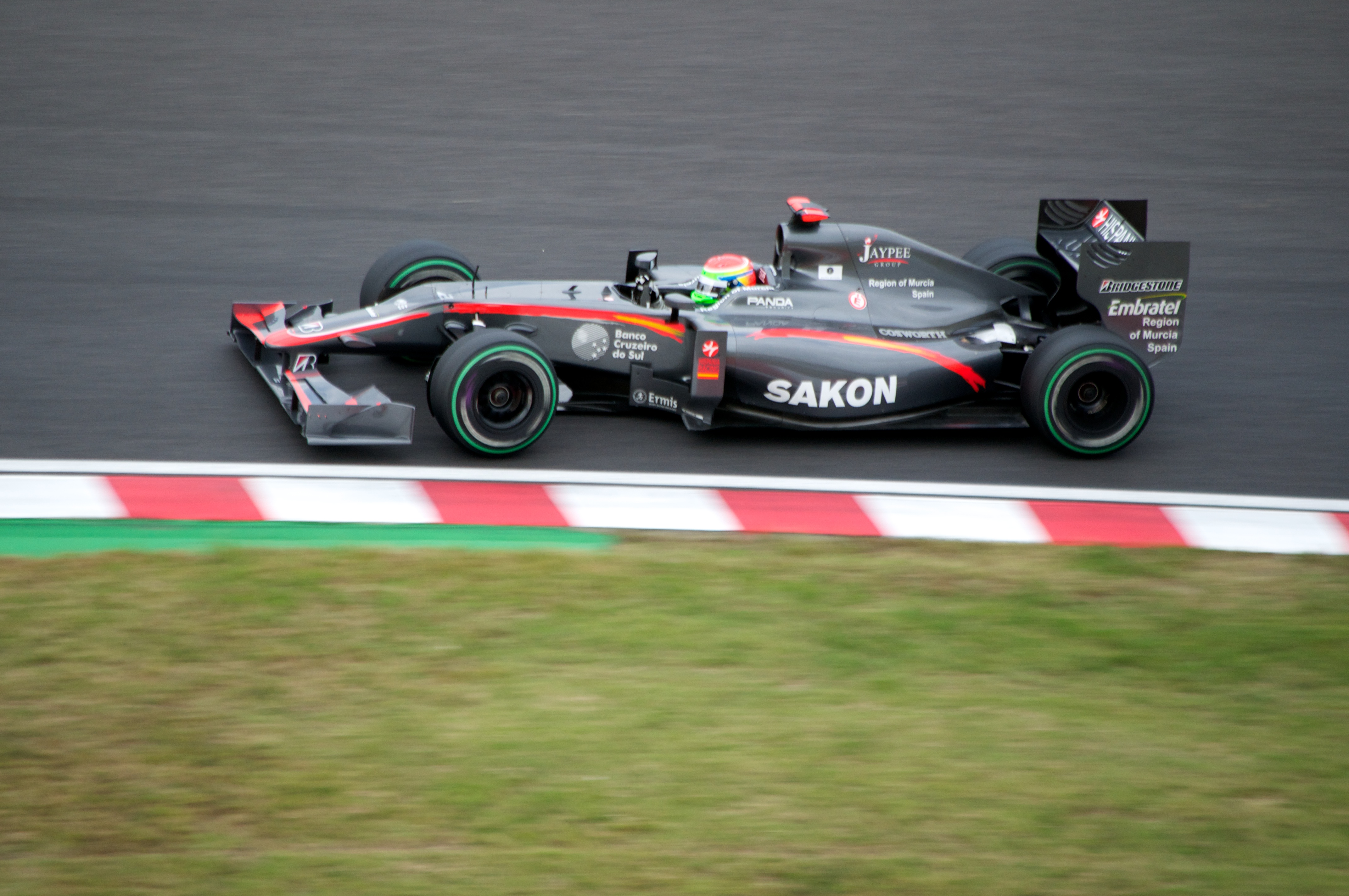 Sakon Yamamoto - HRT